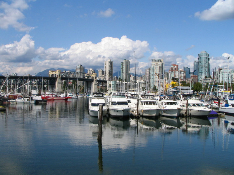 This image was created by me, Flying Penguin of Pacific Spirit Photography of Burnaby, British Columbia, Canada.